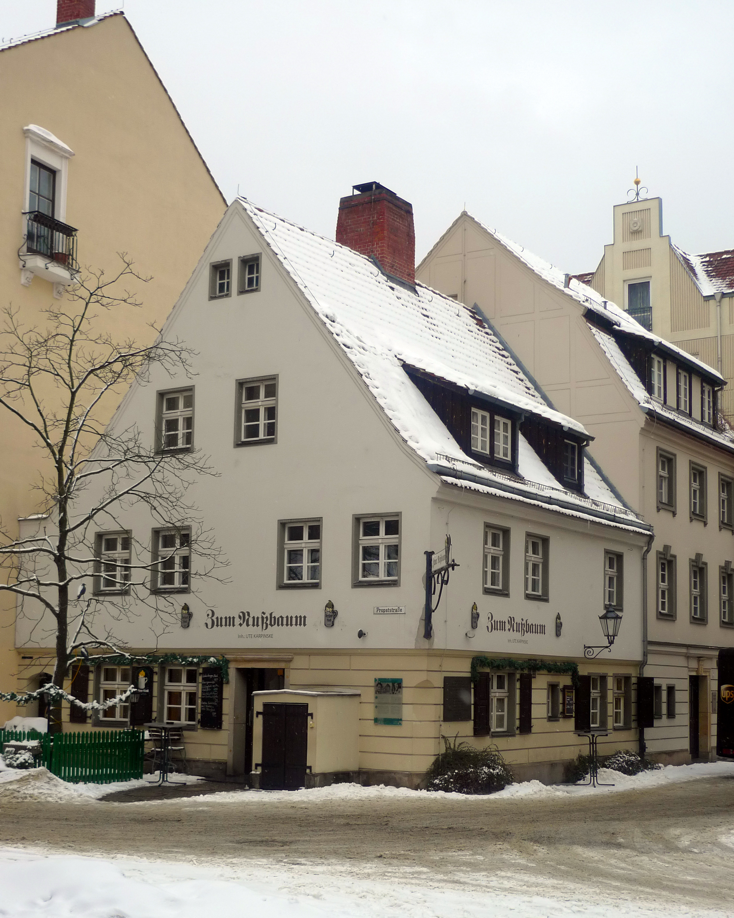 Zum Nußbaum